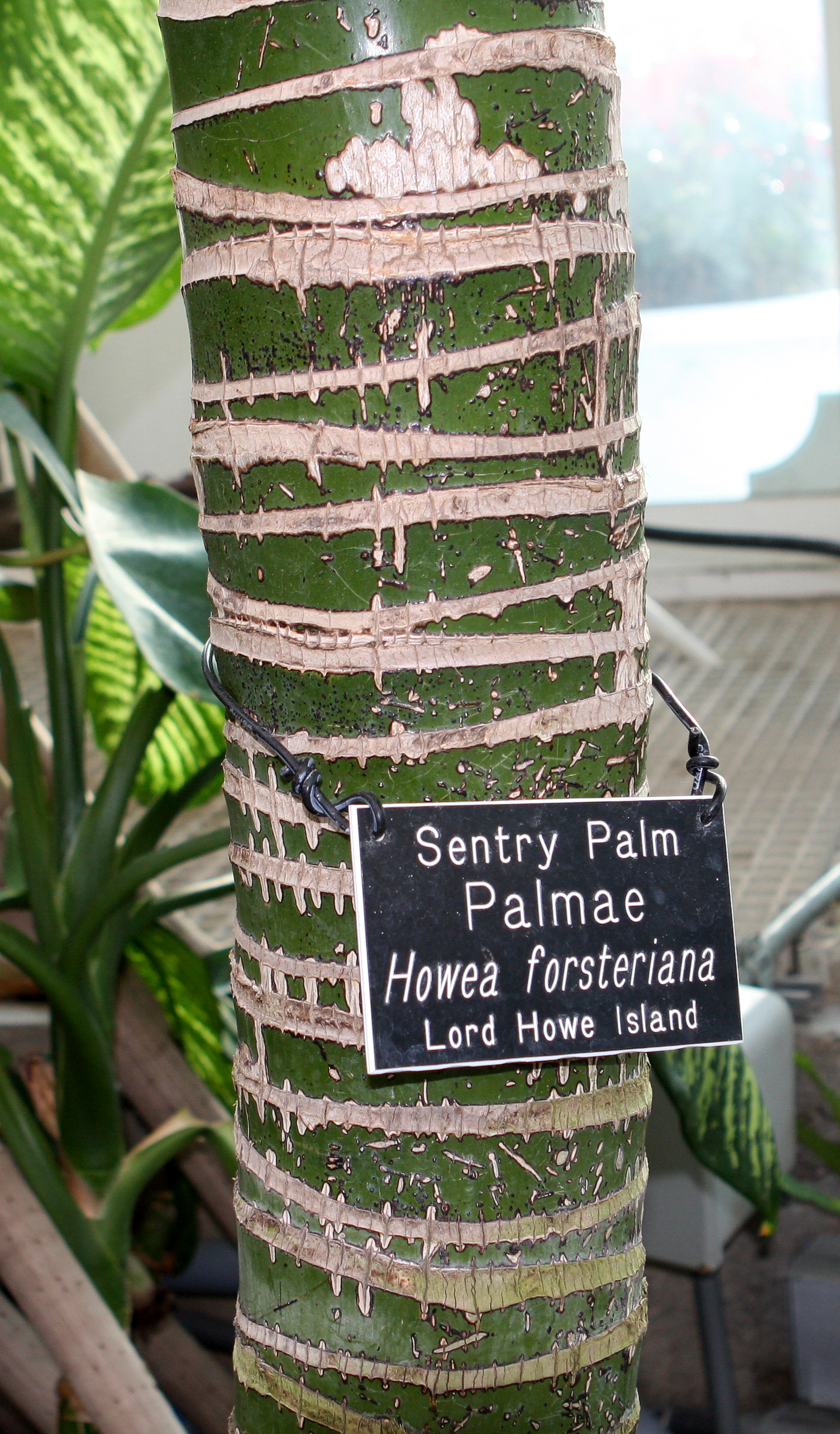 Howea forsteriana self made image. Taken of a plant grown under glass.